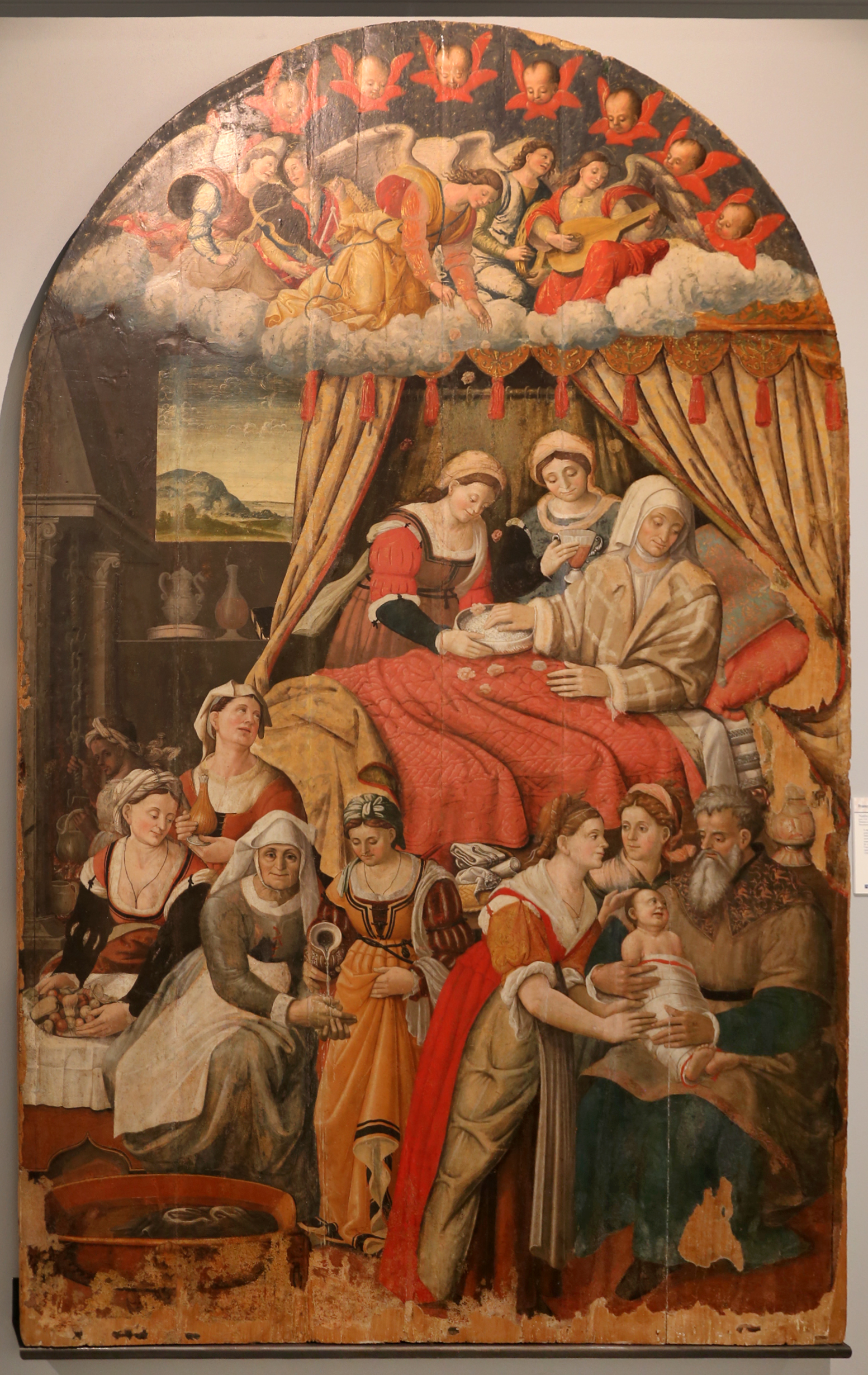 Nativity of Mary by Francesco da Montereale